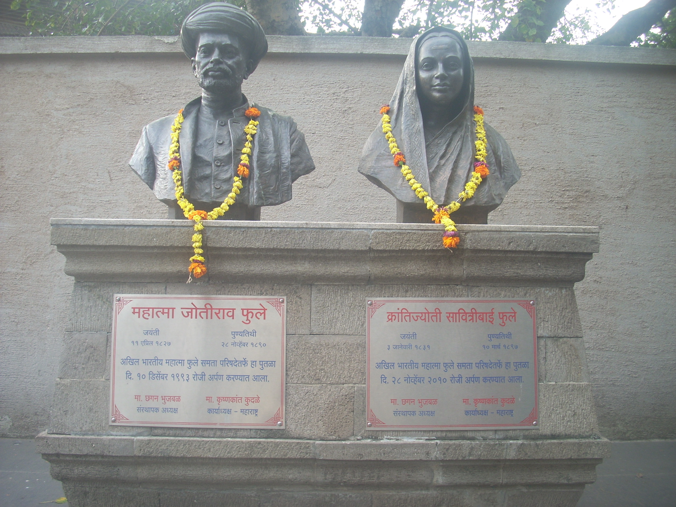 Statues of Mahatma Jyotirao Phule and Savitribai Phule, Pune, India